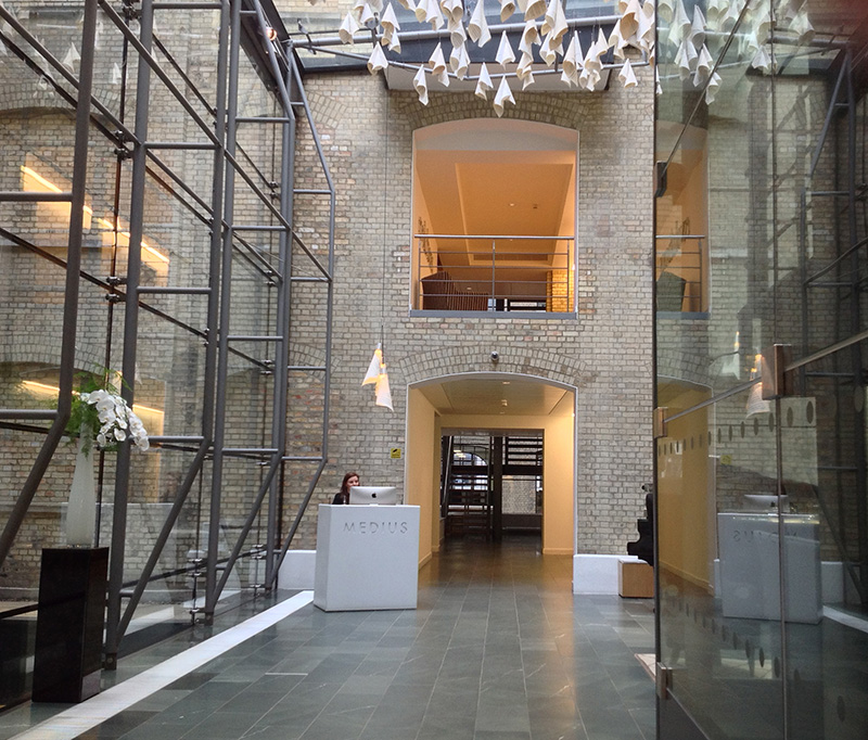 Cinesite in Soho, the foyer of Medius House, March 2015